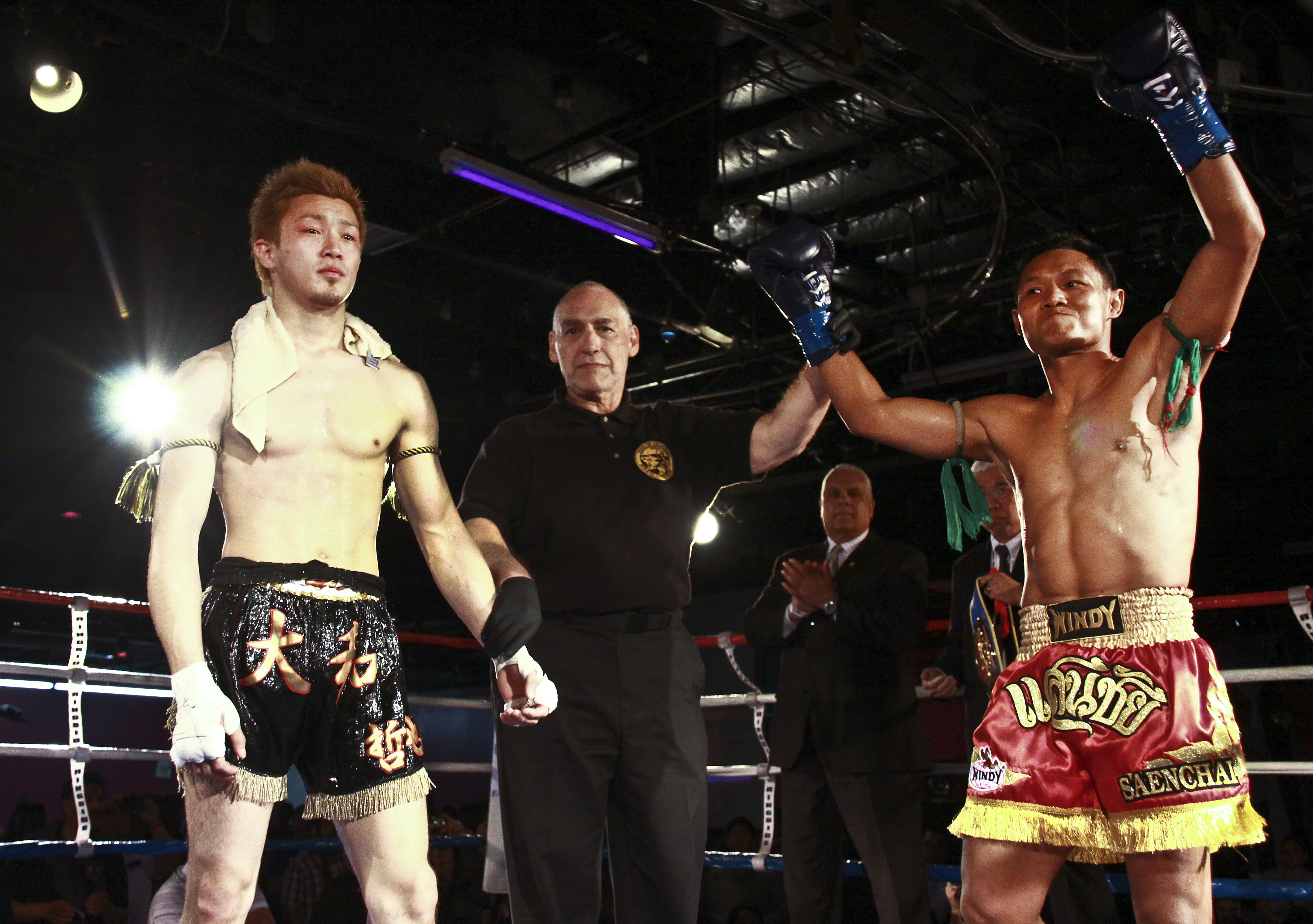 Saenchai winning the world title over Tetsuya Yamato.